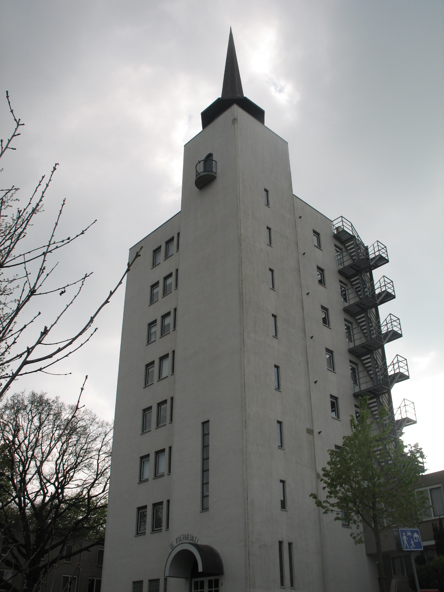 Water tower from Rhenen, the Netherlands